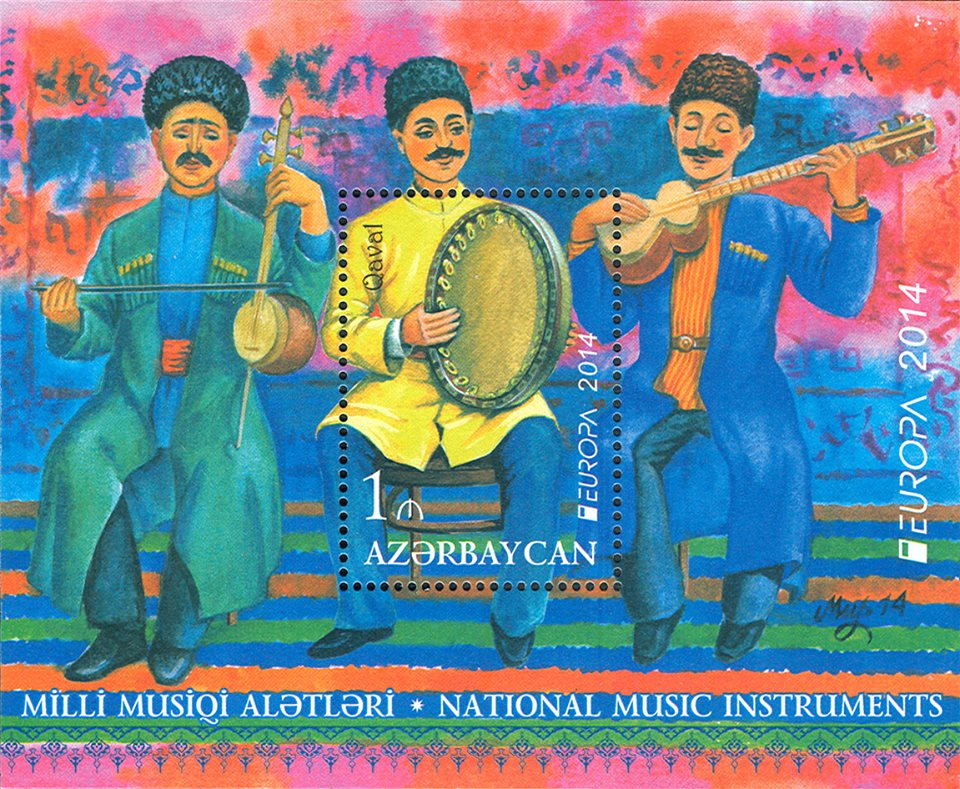 Europe 2014. National music instruments. N 1143 - 1 manat. There is pictured a Qaval on the stamp. There is pictured traditional Azerbaijani trio on souvenir sheet.